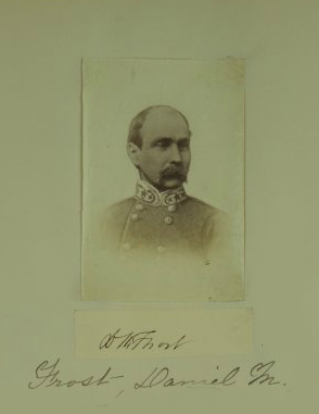 Brigadier General Daniel Marsh Frost, C.S.A. The American Civil War Museum